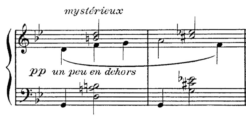 Valse No. 2